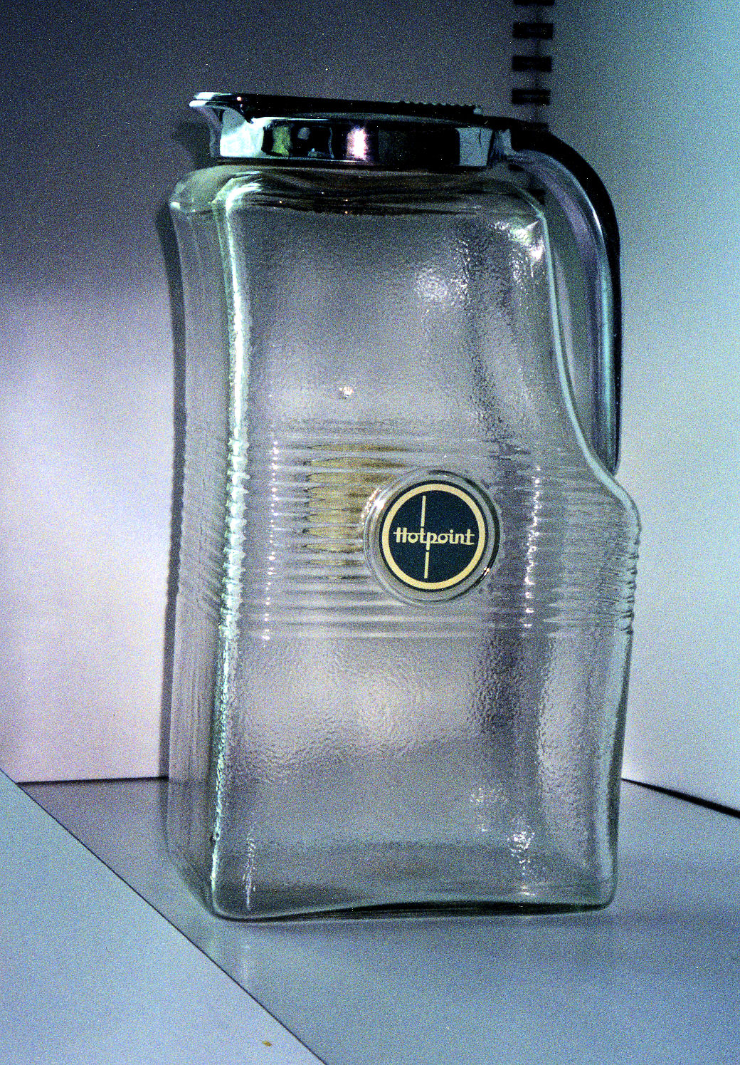 Picture of own glassware made by Sneath Glass Company.